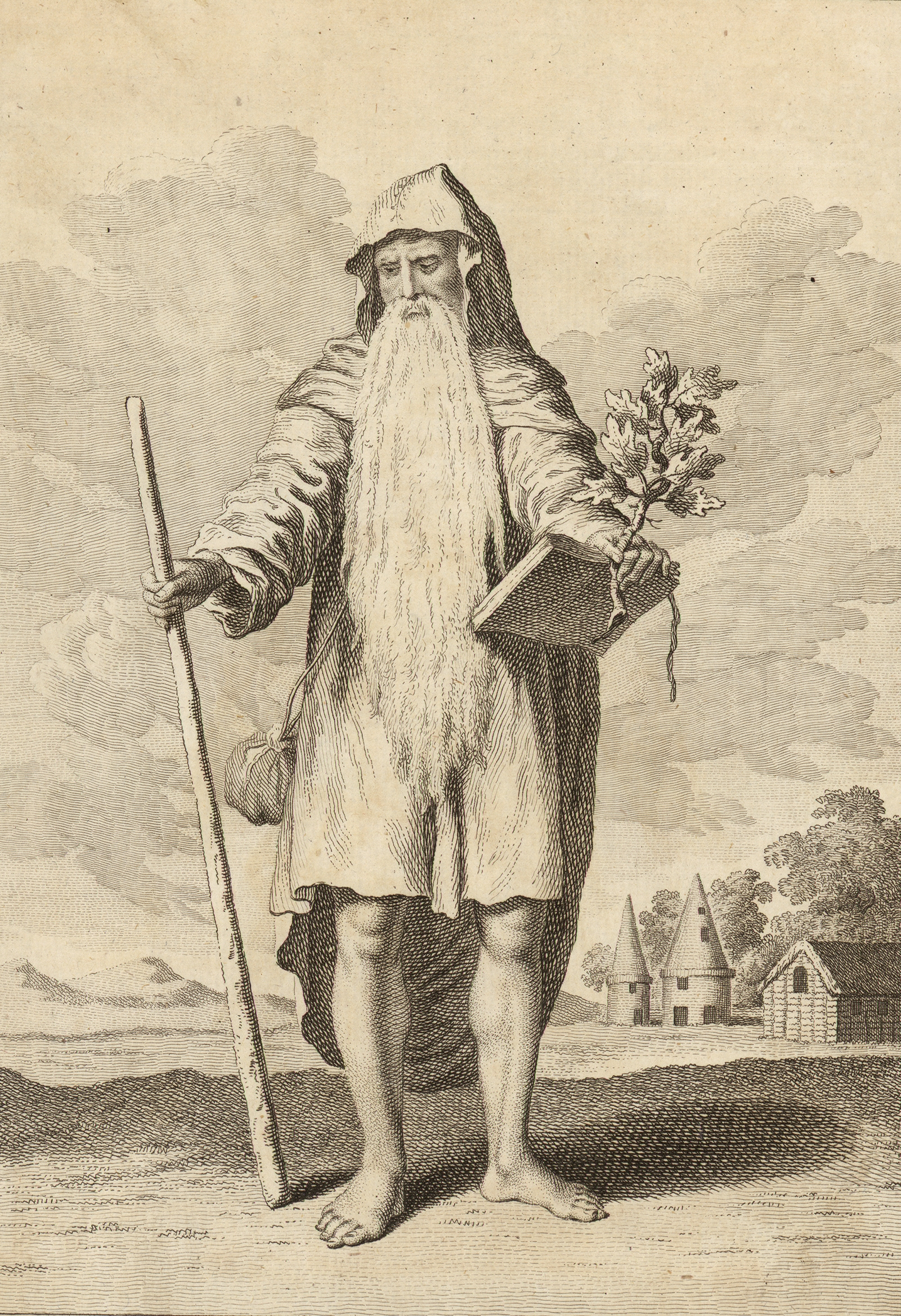 An image from a set of 8 extra-illustrated volumes of A tour in Wales by Thomas Pennant (1726-1798) that chronicle the three journeys he made through Wales between 1773 and 1776. These volumes are unique because they were compiled for Pennant's own library at Downing. This edition was produced in 1781. The volumes include a number of original drawings by Moses Griffiths, Ingleby and other well known artists of the period. Thomas Pennant (1726-1798)